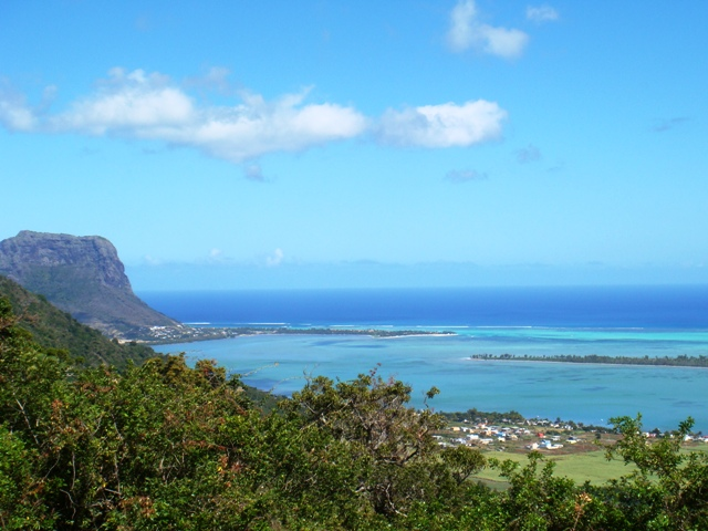 Chamarel view point. Location: Black River Gorges National Park.